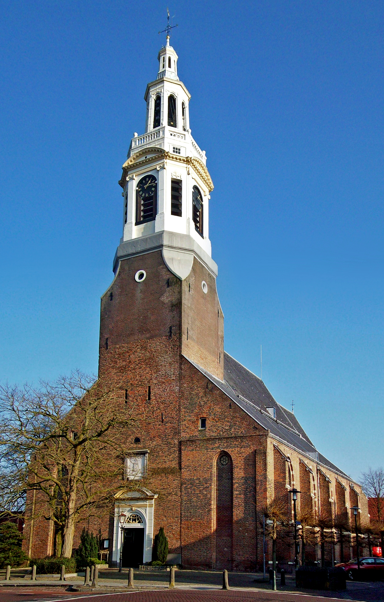 The Big church in Nijkerk (the Netherlands)